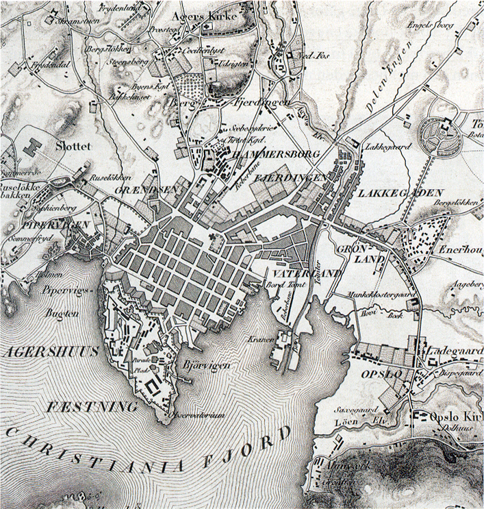 Christiania 1840.